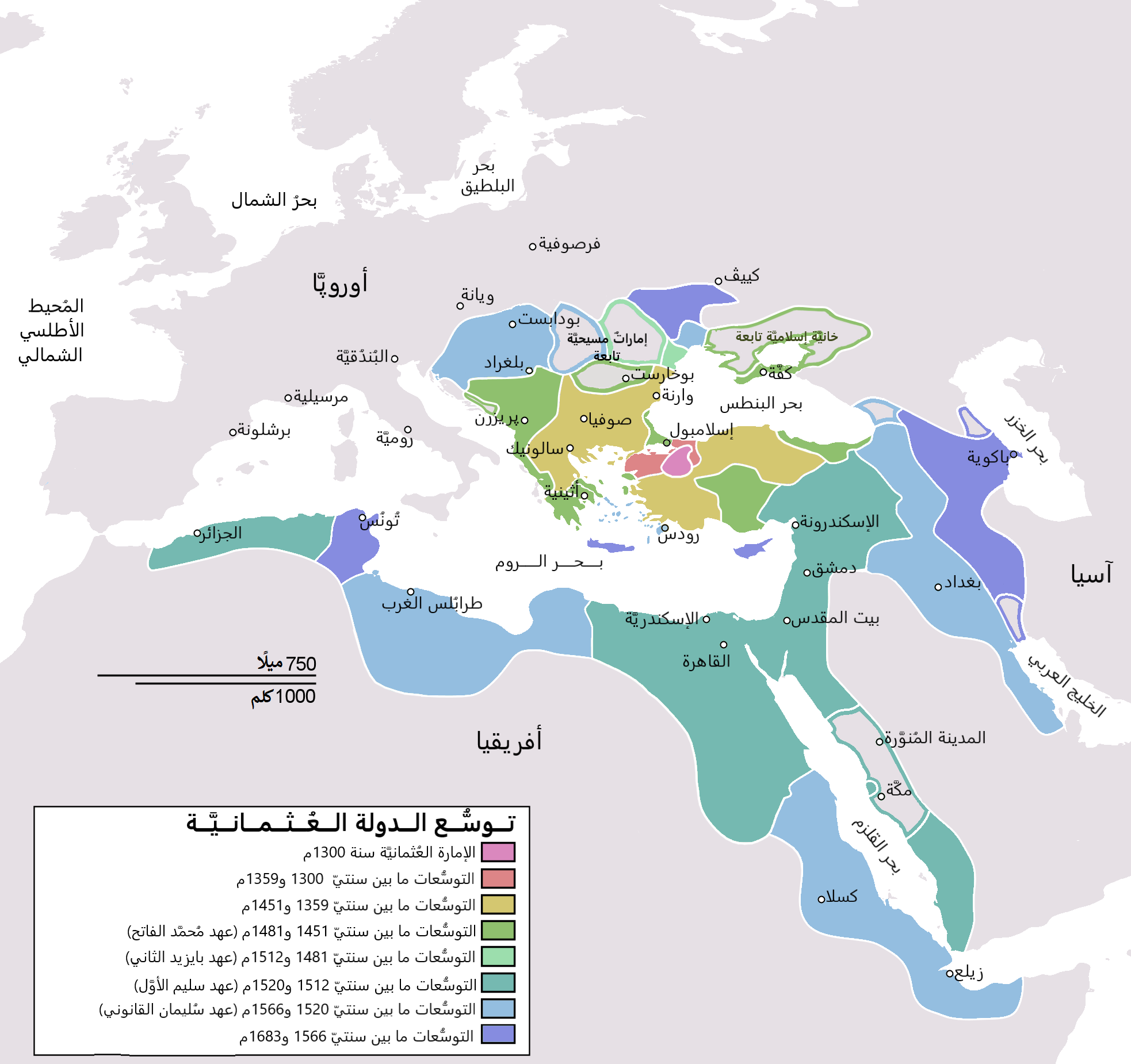 Map depicting the Ottoman Empire at its greatest extent, in 1683.